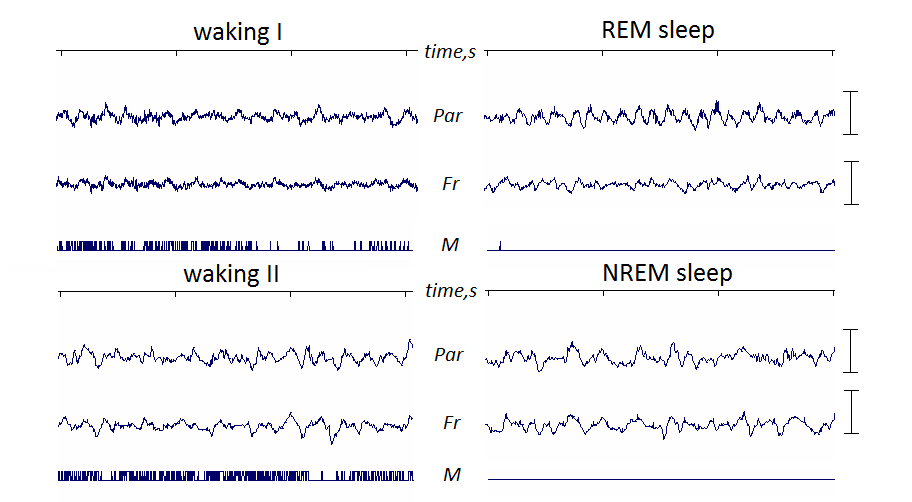 Main patterns of normal mice EEG. Upper trace - time (seconds), Par - parietal surface cortical electrode (closer to hippocampus), Fr - prefrontal surface cortical electrode, M - movements, amplitude scale - 1000uV. Waking I - behavior type I (voluntary, preparatory, orienting, exploratory), EEG contains theta-rhythm (about 8Hz) and fast oscillations. Waking II - behavior type II (automatic movement or awake immobility), EEG is irregular with slow and big amplitude oscillations. REM sleep is characterized with prominent theta-rhythm and animal's immobility, it looks like EEG during waking I. Non-REM sleep or SWS - slow wave sleep is characterized with desynchronized EEG containing large amplitude delta waves (1-4 Hz), it looks similar to large irregular activity of waking II EEG. Recordings were made with Neurologger device (NewBehavior AG, Zürich, Switzerland) in University of Zürich.